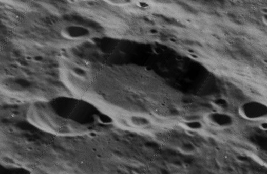 Oblique view of Anders, on the moon.